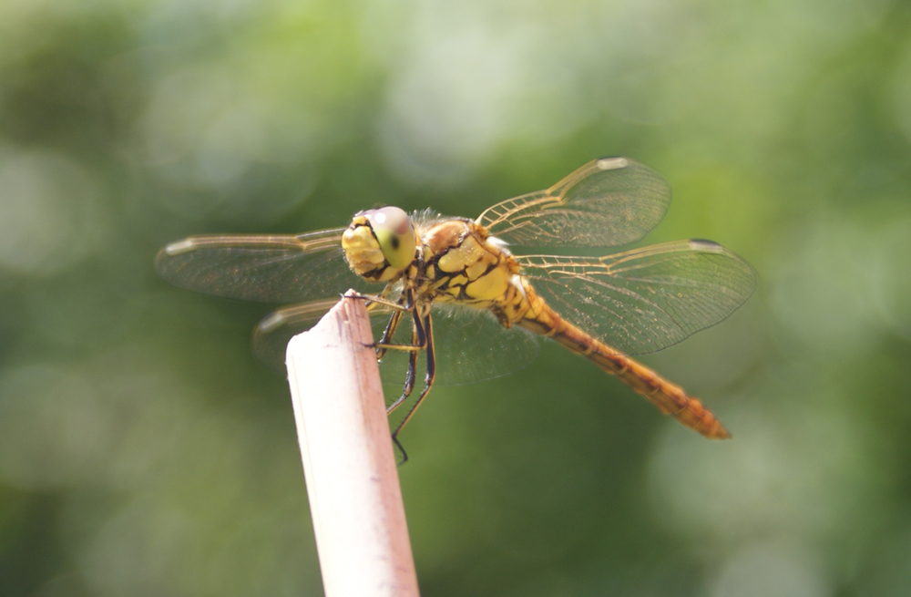 Recently hatched male Vagrant Darter dragonfly, Sympetrum vulgatum, not yet in the final dark and red colour. Picture taken in Upper Palantine, Bavaria, Germany.